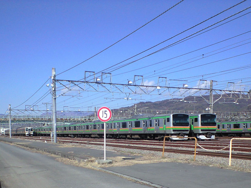 JR East Kozu Rolling Stock Center in Odawara, Kanagawa. Taken from outside the site